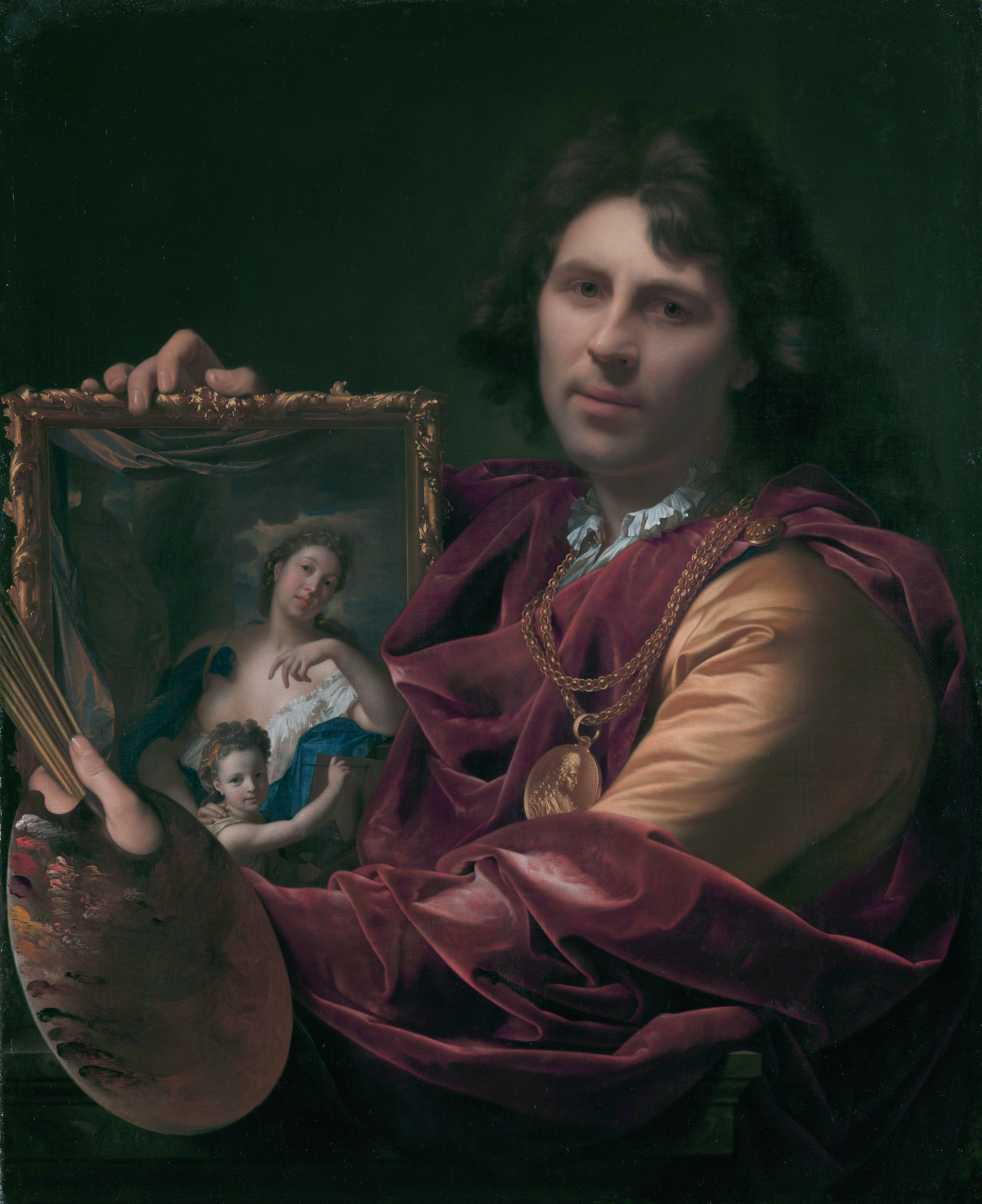 Self-portrait with the portrait of his wife, Margaretha van Rees, and their daughter Maria oil on canvas 81 × 65.5 cm signed b.l.: Adr.v.werff . fec. 1699.